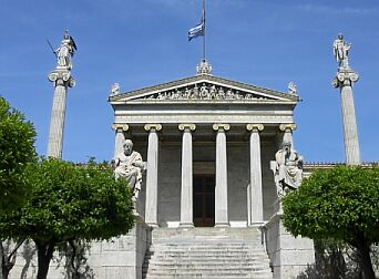 The National Academy in Athens, with Apollo and Athena on their columns, and Socrates and Plato seated in front. The modern National Academy in Athens, with Apollo and Athena on their columns, and Socrates and Plato seated in front.